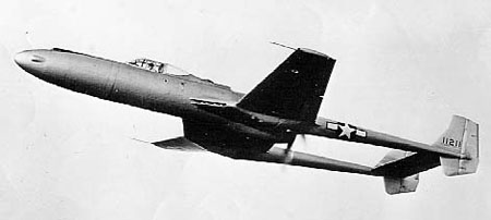 Description:XP-54 Swoose Goose in flight.